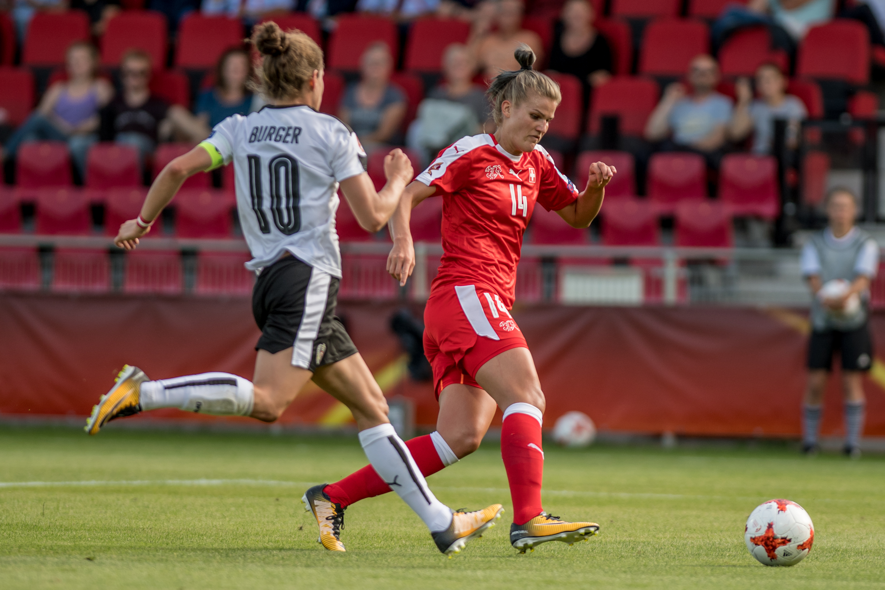 18/7/2017, Deventer, Netherlands, sports, soccer, UEFA Women's Euro 2017 - Austria vs Switzerland.